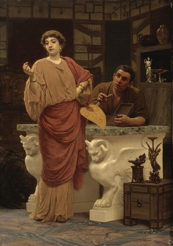 Little Luxury", oil on canvas, 51 x 37.5 cm, private collection